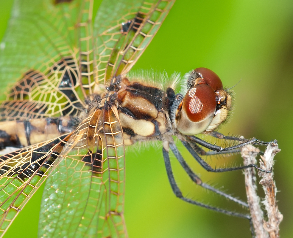 This photograph was taken by L. Sells a volunteer Wayne PhotoNaturalist. It was photographed at the Peabody Reclamation area on the Athens Ranger District.